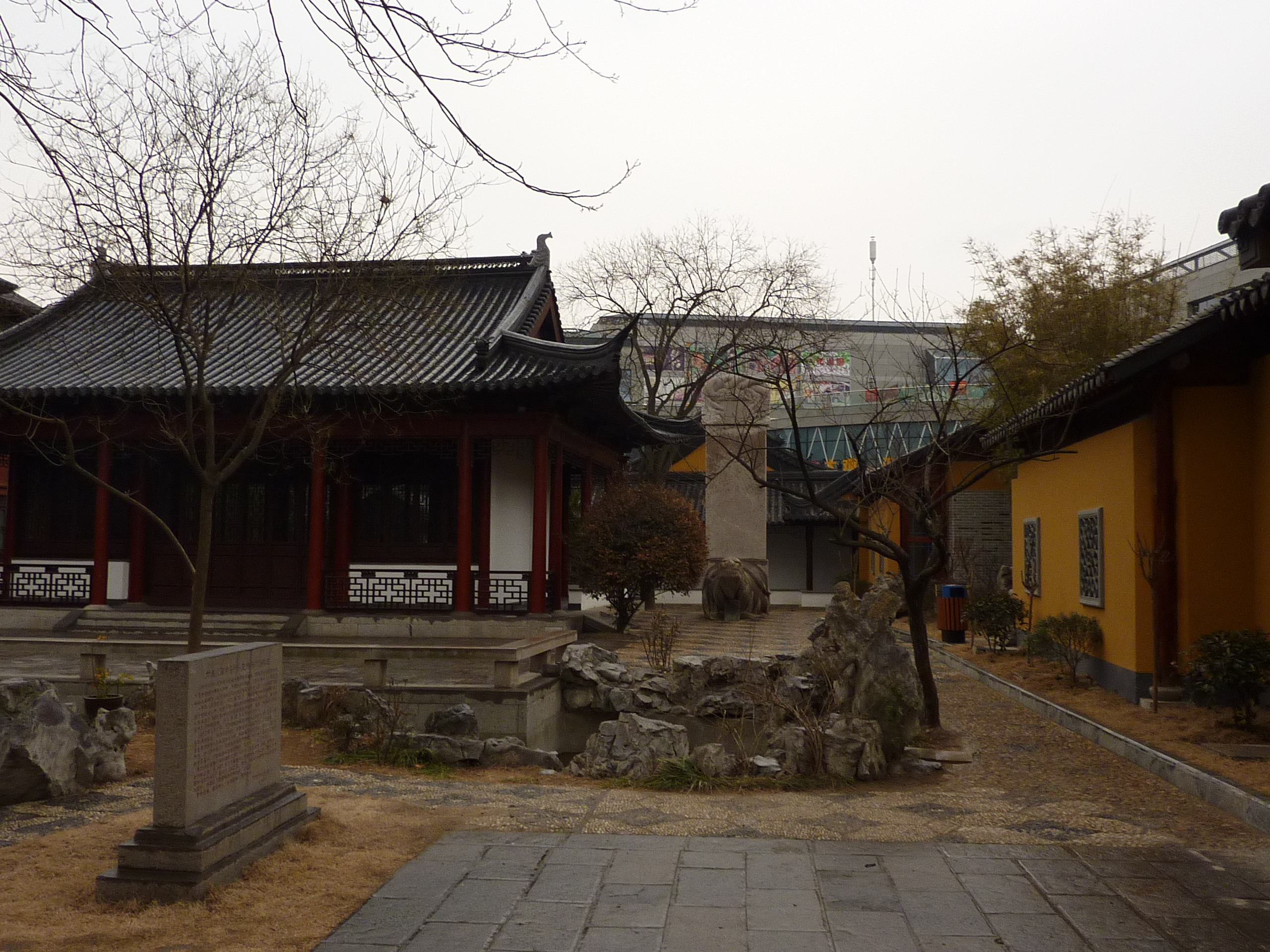 The original (restored) Tianfei Gong Stele, in Jinghai Temple, Nanjing.